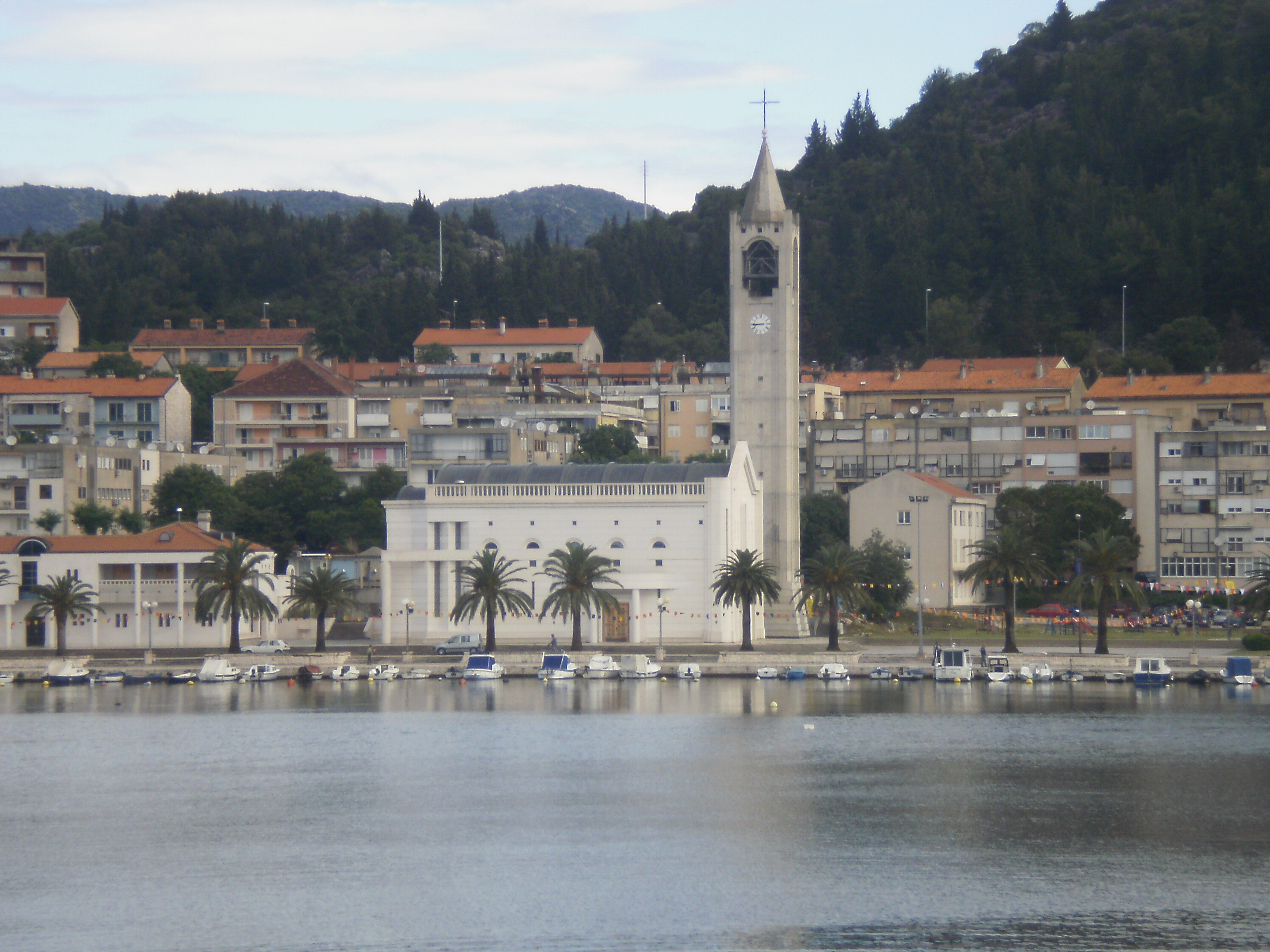 Queen of Heaven and Earth church in Ploče